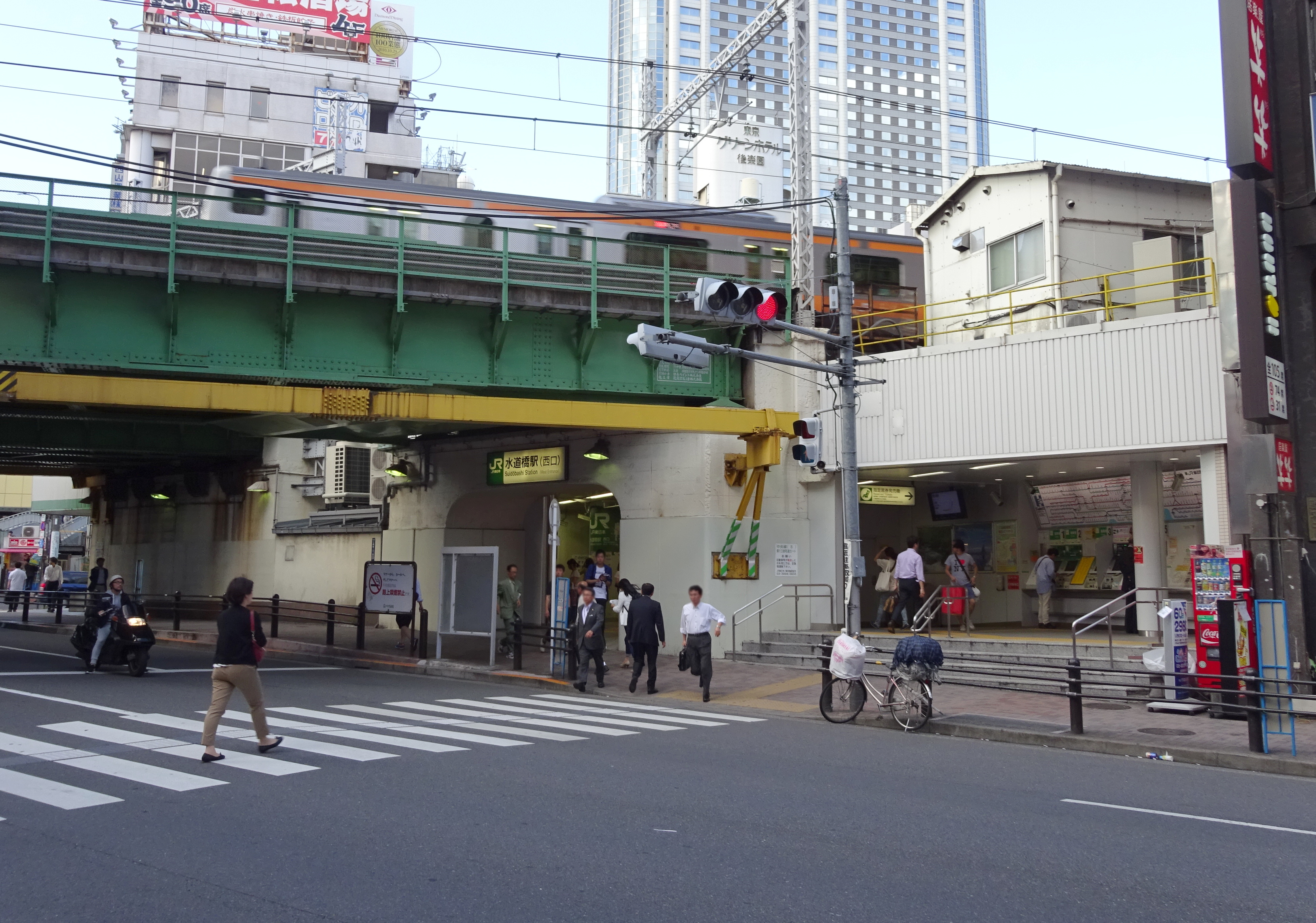 West Entrance of Suidobashi Station (JR)